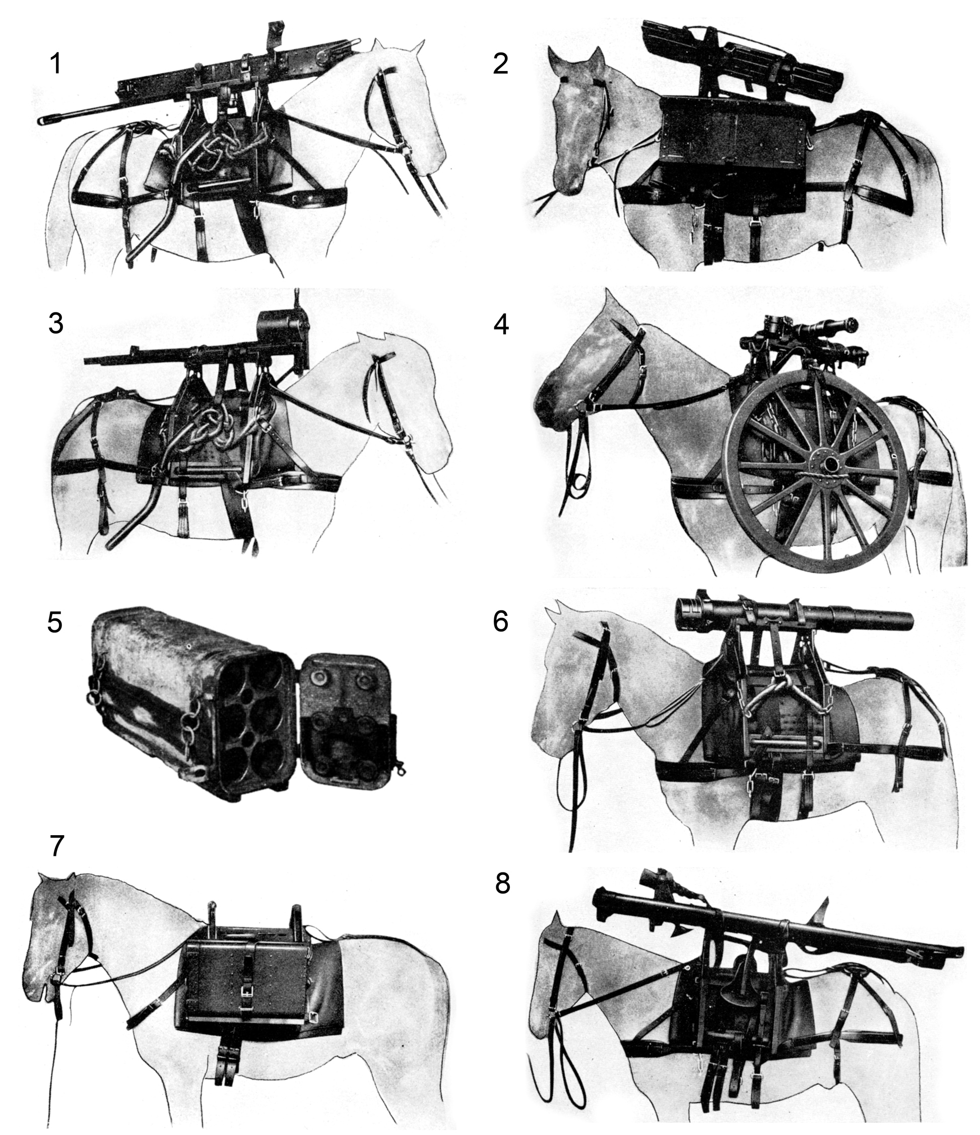 The pack-horses required to carry a Japanese Type 41 75 mm mountain gun (1,2,3,4,6,8) and a standard 75 mm ammo chest (5) and the pack horse to carry the ammunition chests. 1. Gun cradle on pack saddle. 2. Folded gun-shield on pack saddle, with tool chest attached to the side 3. Breech mechanism and tray on pack saddle. 4. Wheels and axle on pack saddle. 5. Standard ammunition chest for 75 mm mountain gun ammunition. Made of steel plate - it holds six rounds and weighs 29 lbs empty and 118 lbs loaded. 6. The tube on a pack saddle. 7. An ammunition chest fastened to a pack saddle (normally two 75 mm chests would be carried in this way). 8. The trail (with the blade folded) on a pack saddle.